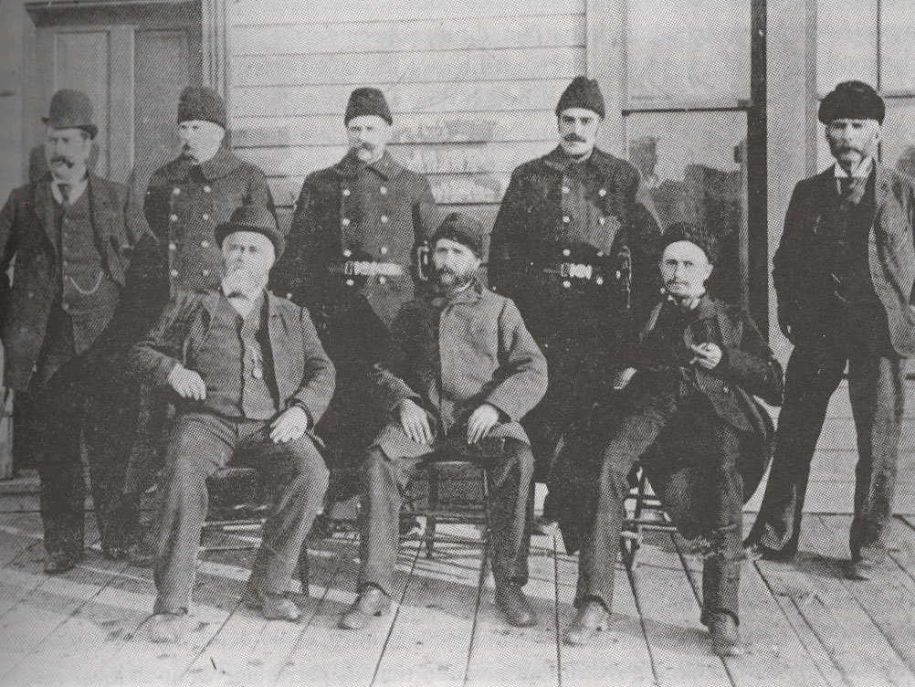 Calgary's city officials. Back row (L to R): R. Paddy Nolan, Police Chief Thomas English, Constable J. Fraser, Tom Lippincott, City Clerk James D. Geddes. Front row (L to R): R. Wesley Fletcher Orr, Mayor George Murdock, City Solicitor Arthur Sifton.